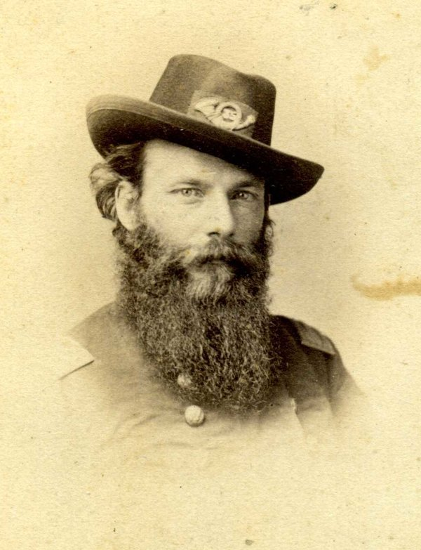 Portrait of Col. James Chaplin Beecher